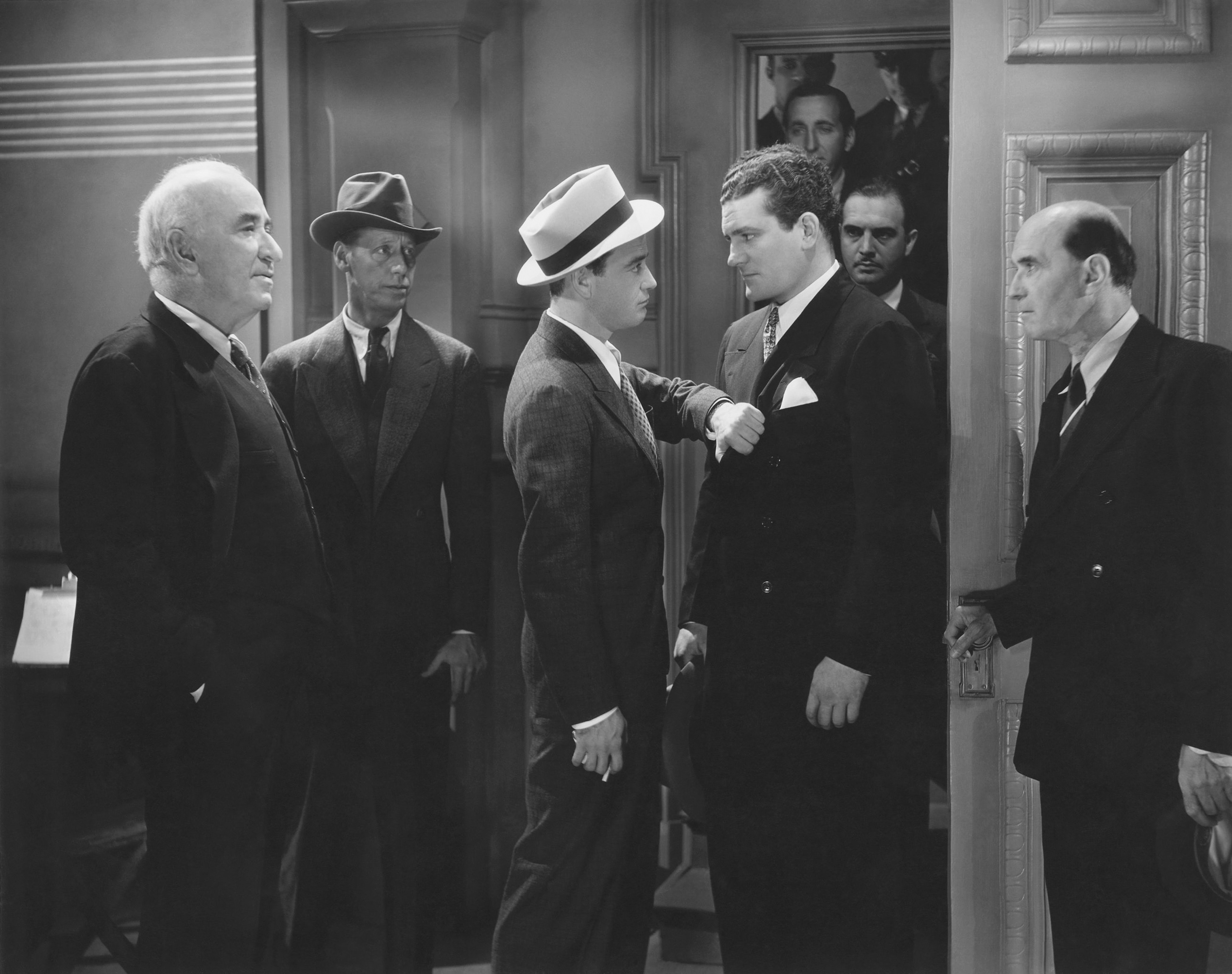 L. to R. (foreground) : Frank Sheridan, Irving Bacon, Lew Ayres, Don Rowan & unknown in Murder with Pictures - publicity still